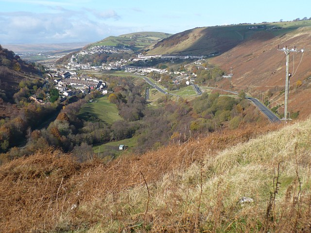 Rhymney Valley The view northwards up the Rhymney Valley. Communities visible are Cwmsyfiog, Elliot's Town, Phillip's Town and New Tredegar on the east side of the valley. On the west side are Brithdir and Tirphil. In the distance is Abertysswg.